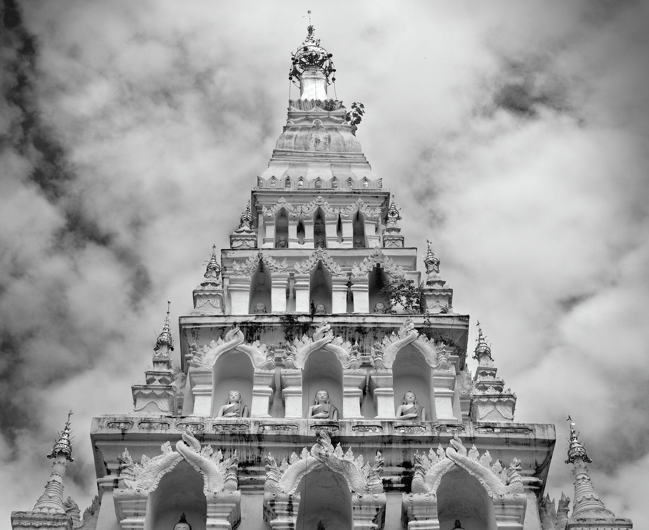 Crest of the stupa known as Chedi Liam, itself an ancient replica of a similar structure in Lamphun (then Haripunchai), from the Mon period, located in Wat Chedi Liam (formerly known as Wat Kum Kham), part of the Wiang Kum Kam archaeological site, Chiang Mai, northern Thailand.